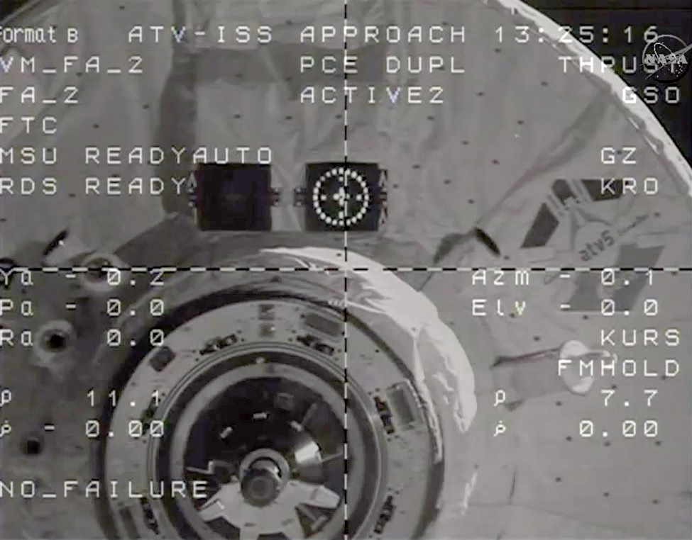 Automated Transfer Vehicle 5 (ATV-5) five minutes before docking on International Space Station (ISS), view from docking camera